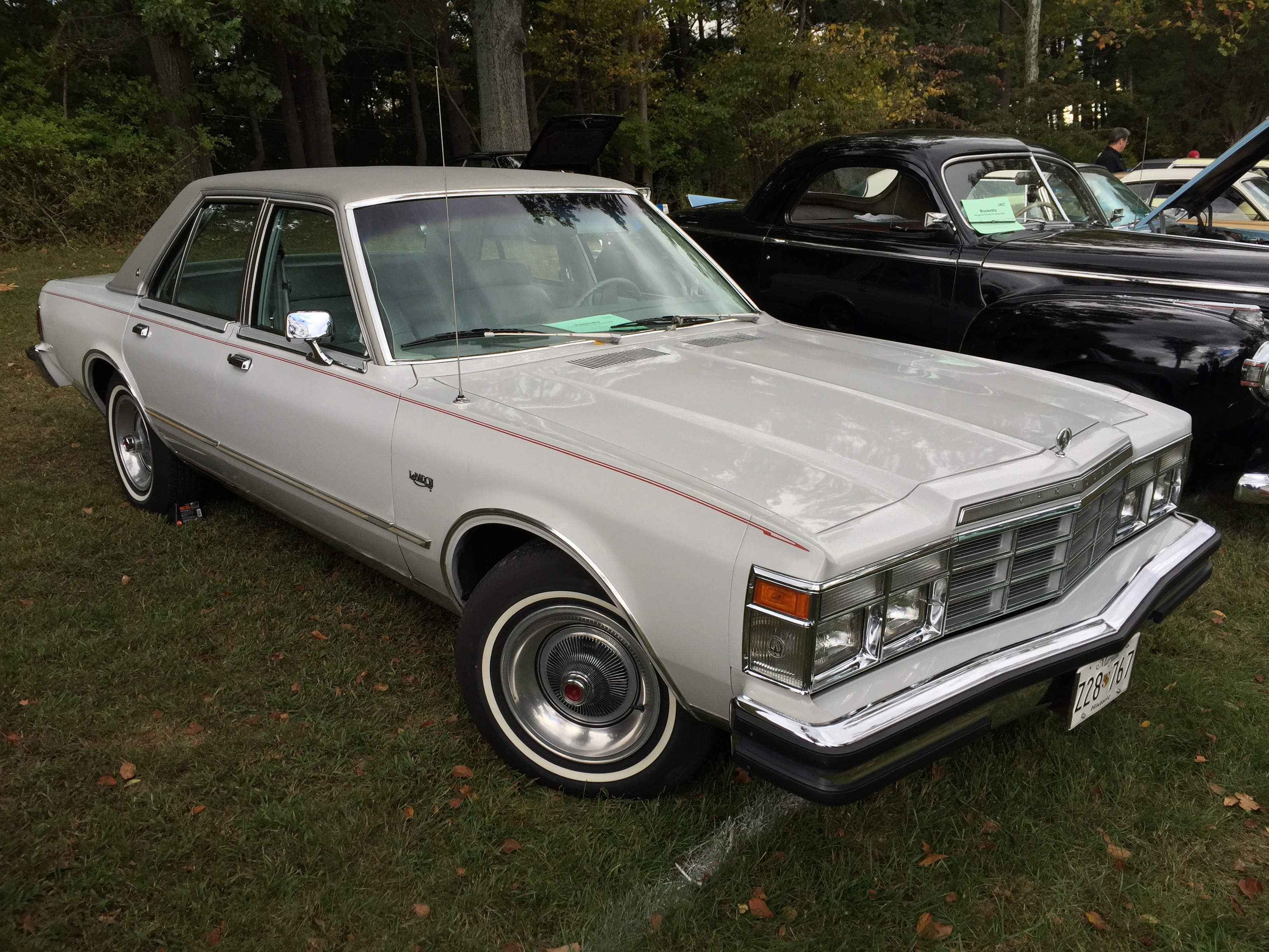 1978 Chrysler LeBaron (M-body) a mid-sized premium four-door sedan. All factory original condition. Picture taken during the 2015 Rockville Antique and Classic Car Show in Maryland.